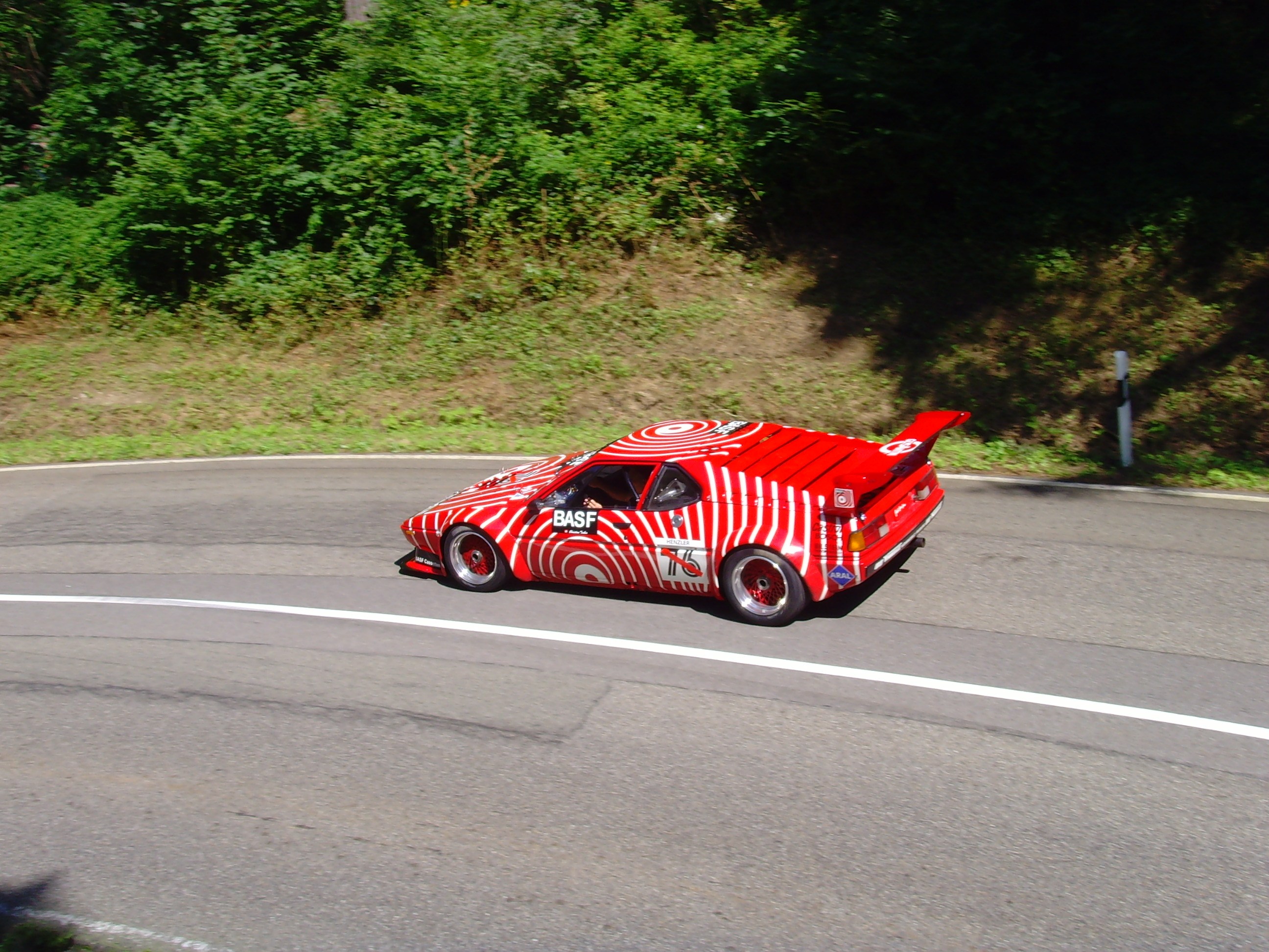 GS Tuning's BMW M1 Procar, ADAC Schauinsland Klassik 2007